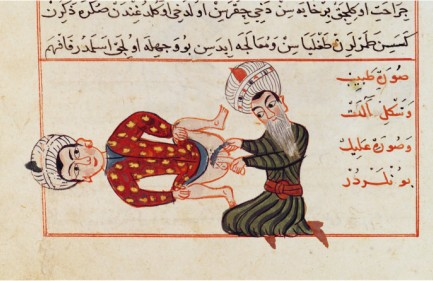 A medical illustration by Charaf-ed-Din depicting an operation for castration.